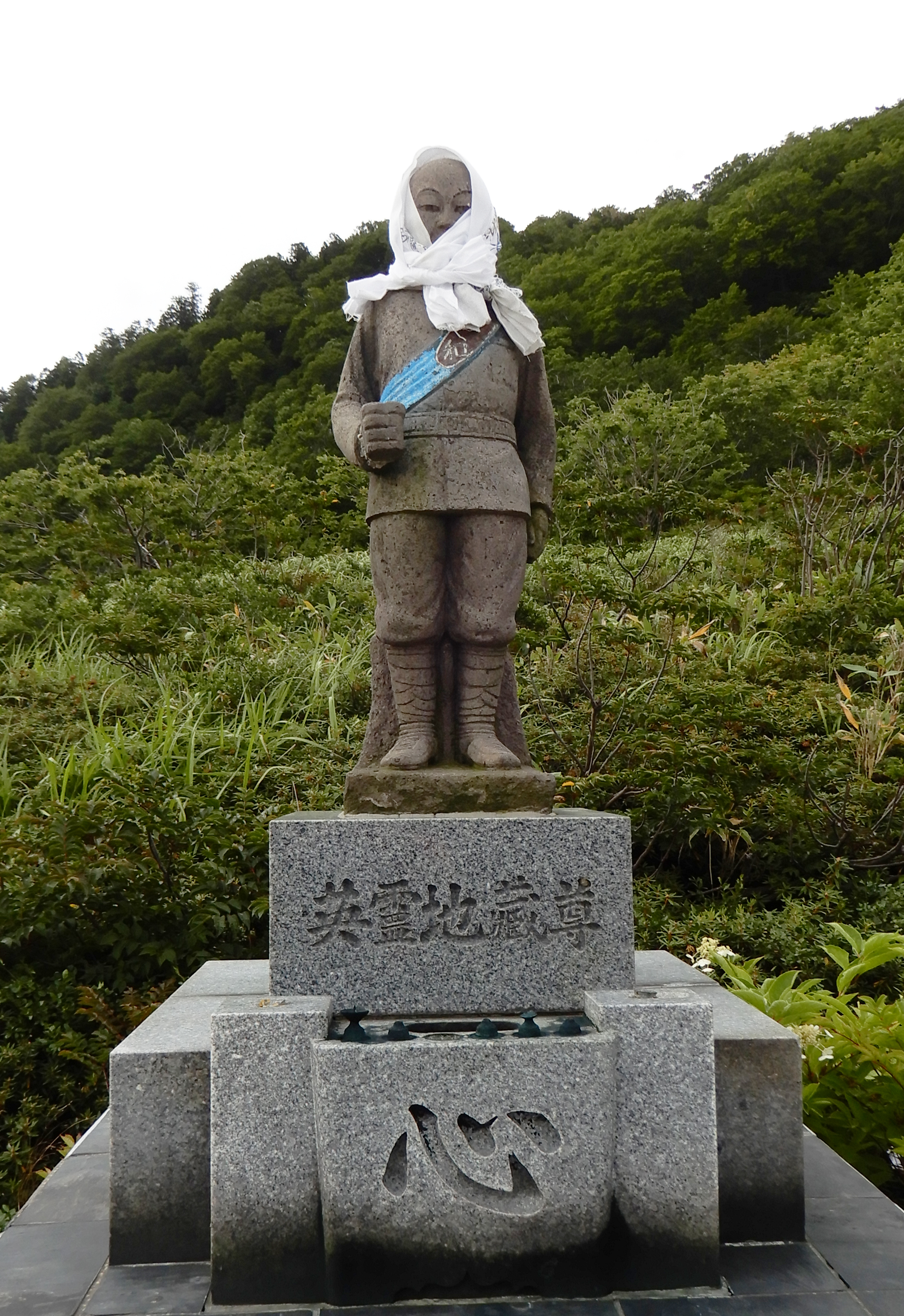 A syncretic Jizō sculpture featureing Kṣitigarbha and spirits of the war dead. This photo was taken at at OSOREZAN, or Mount Osore, Aomori Prefecture, Japan.